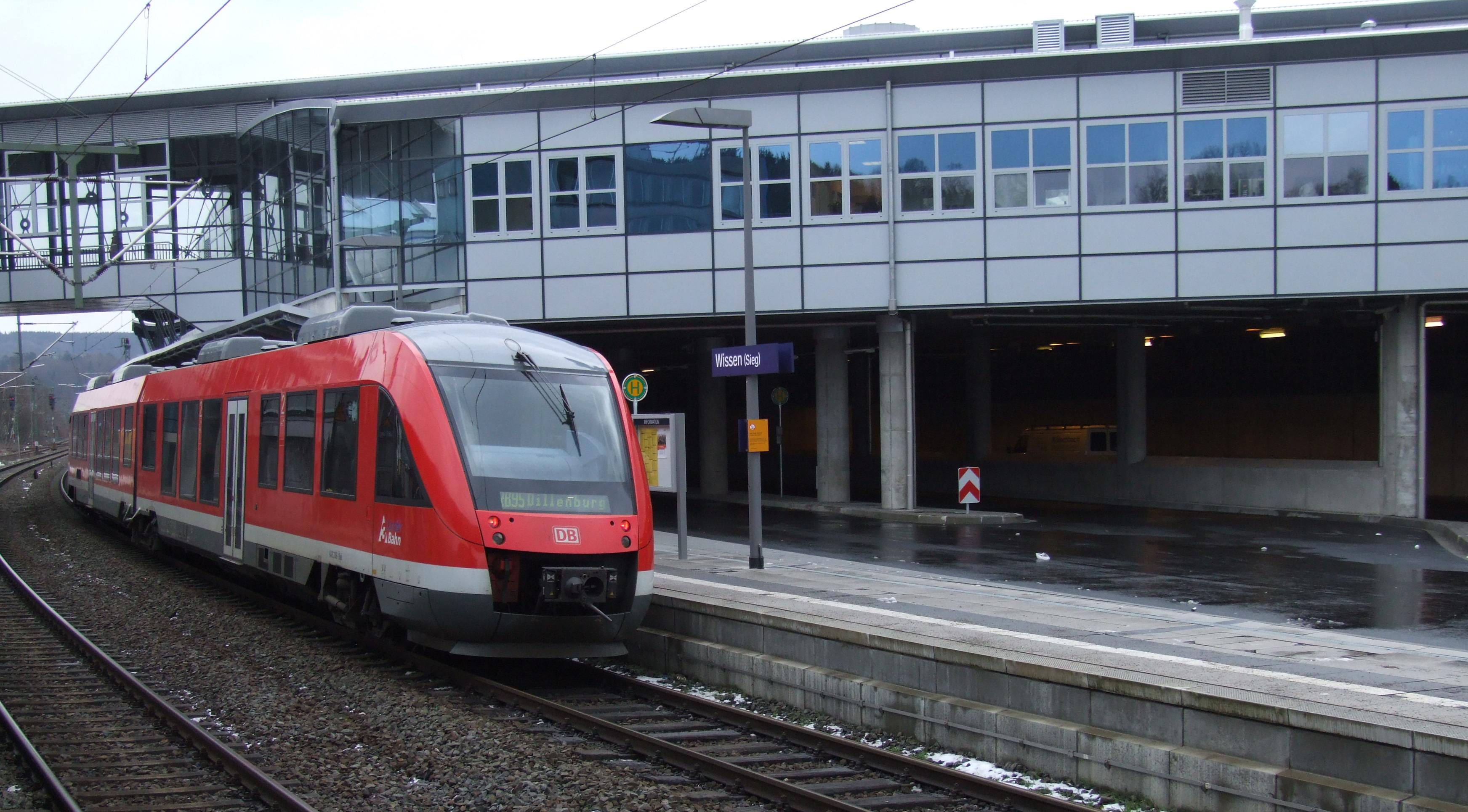 Alstom LHB Coradia LINT (RB 95) in Wissen